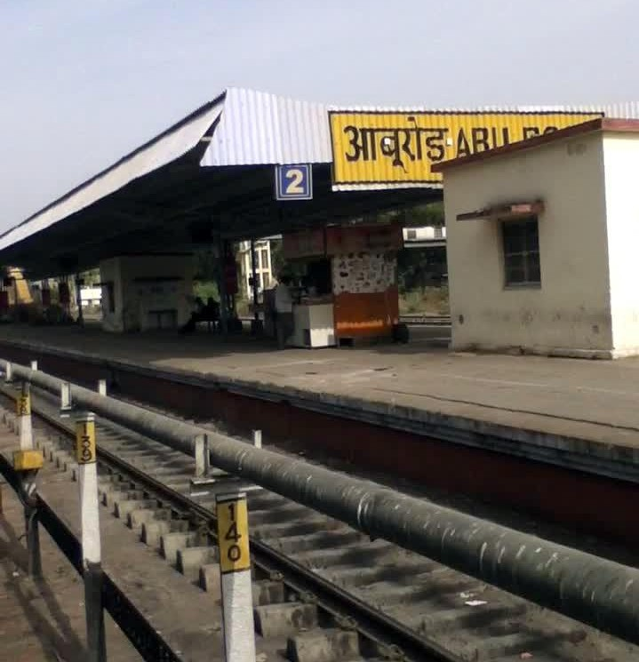 Platform 2 & 3